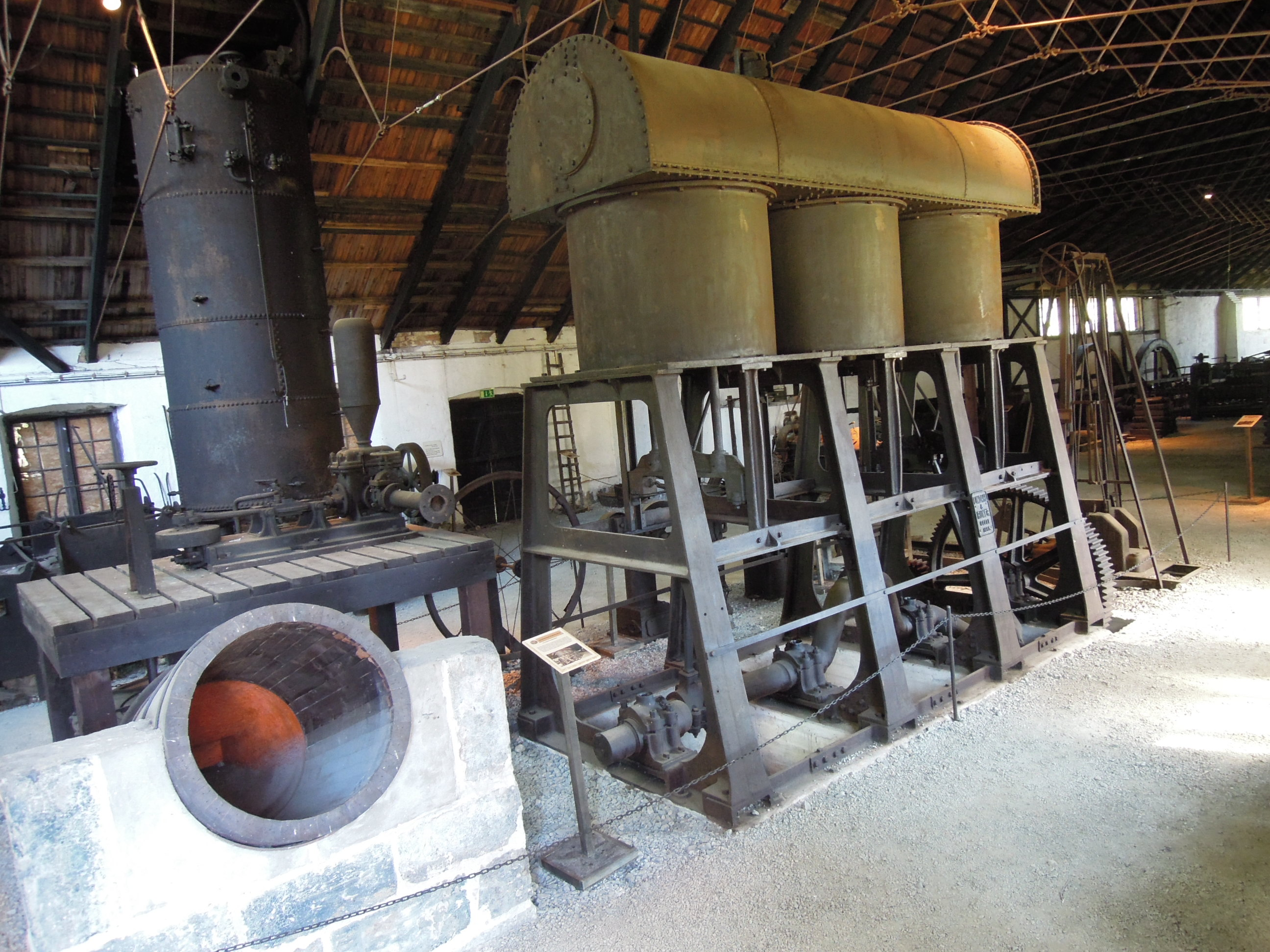 Ironwork museum in Surahammar, Sweden. A Swedish blowing machine for blast furnaces.